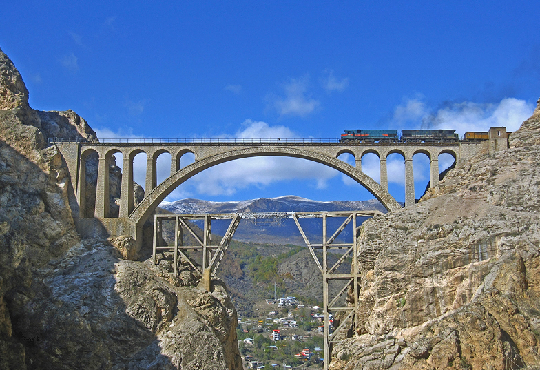 Veresk Bridge, Iran